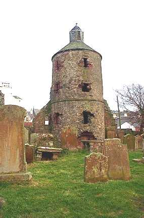 Portpatrick - St Andrew's Auld Kirk. This Church was built in the 17th century and has been disused since 1842.